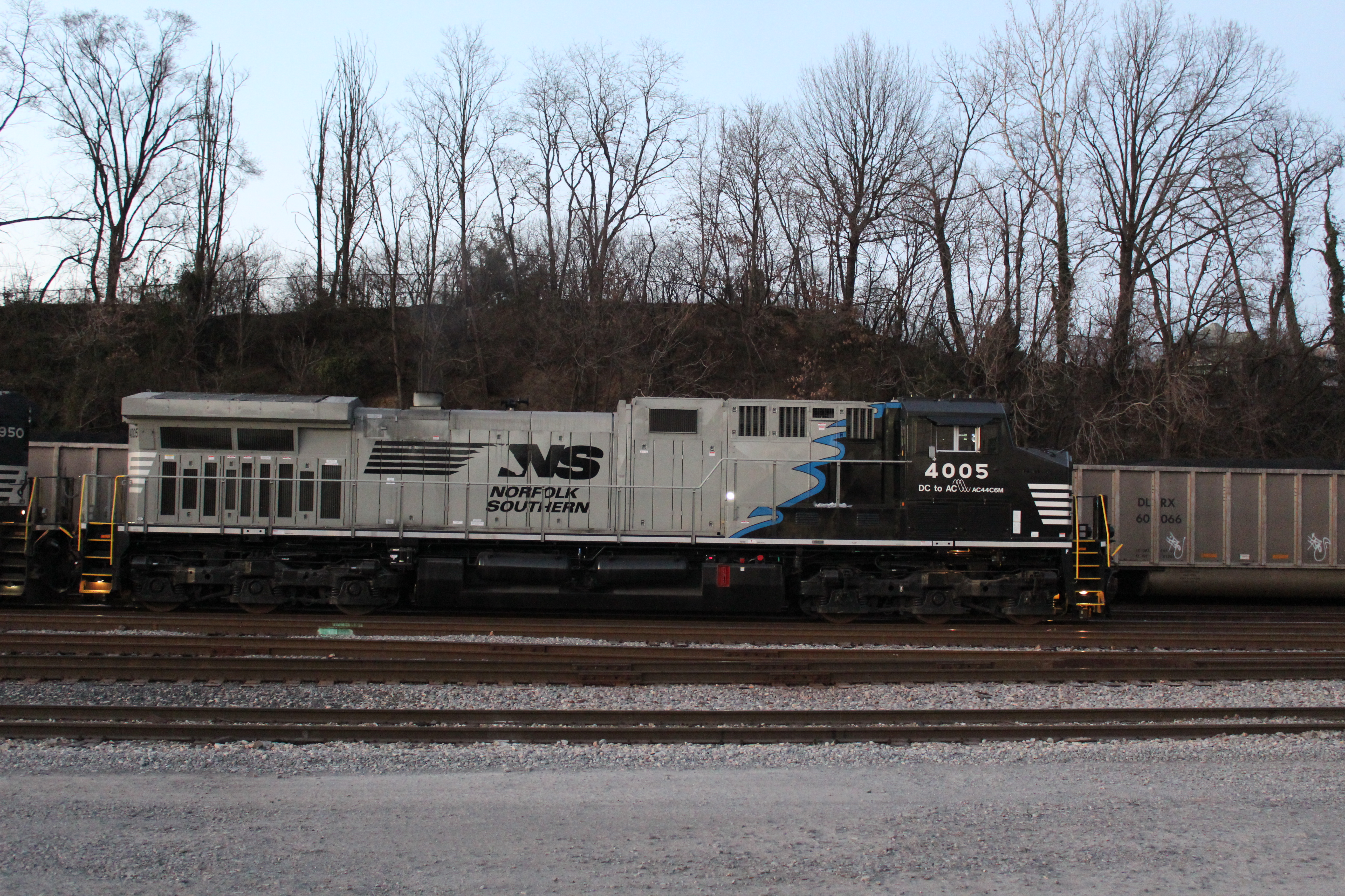 NS 4005 sitting in South yard in Roanoke, VA.